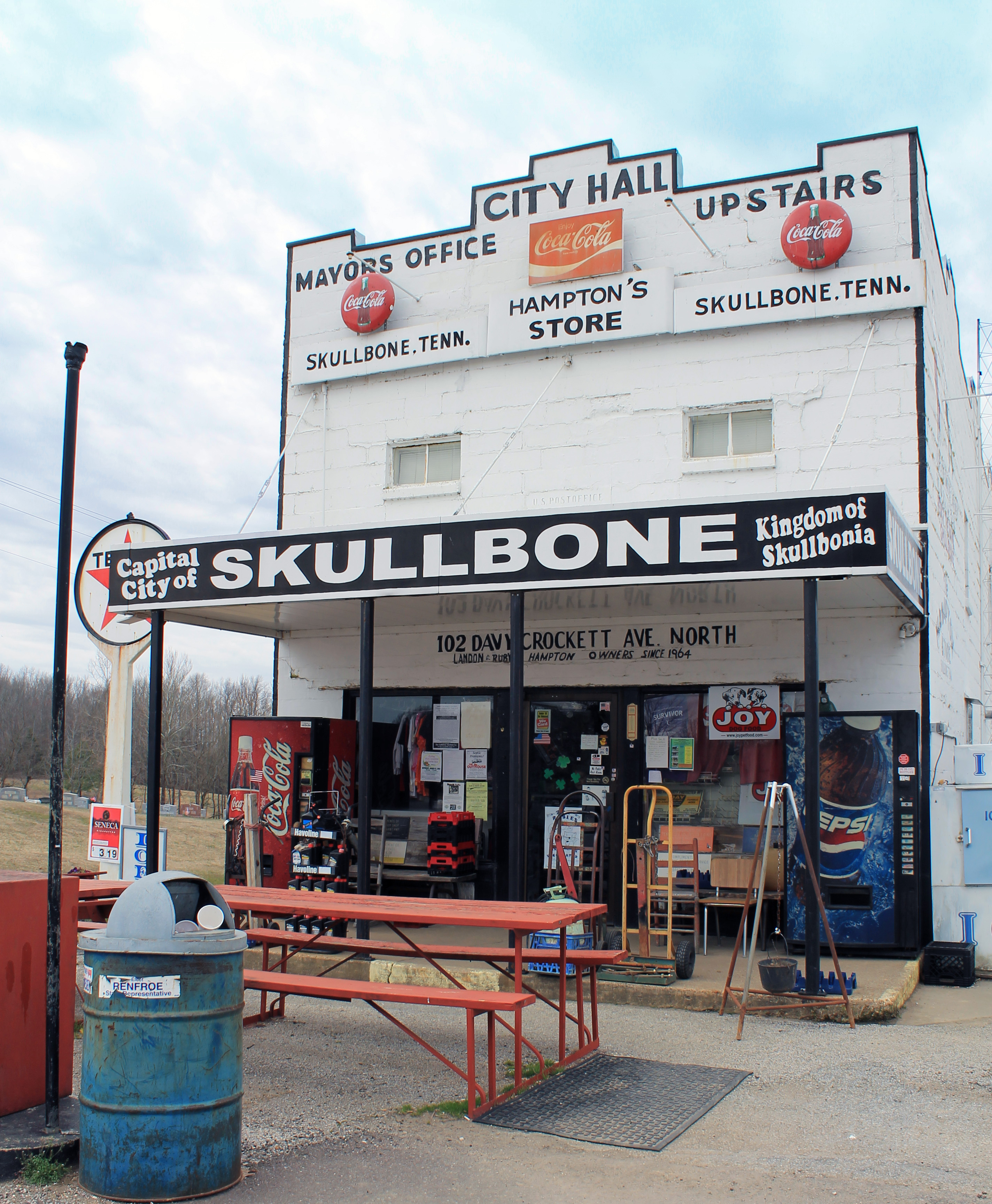 Skullbone Store